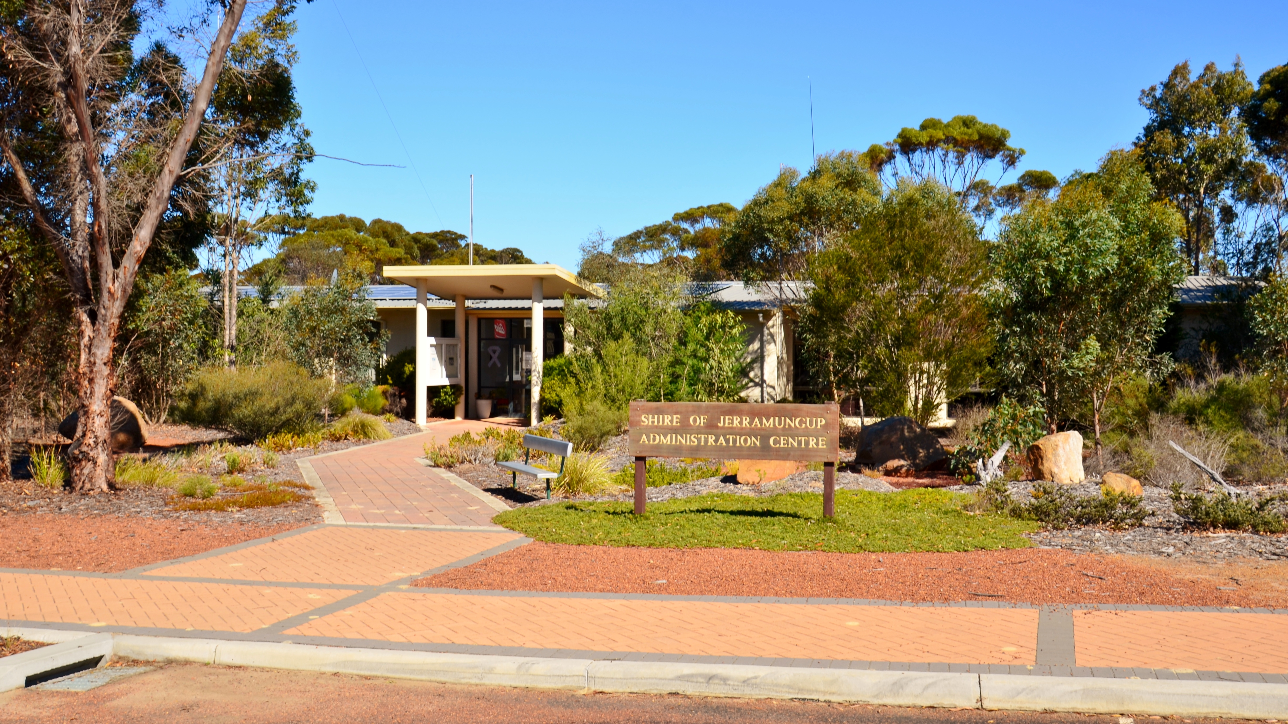 View of the administration centre of the Shire of Jerramungup, Vasey Street, Jerramungup, Western Australia